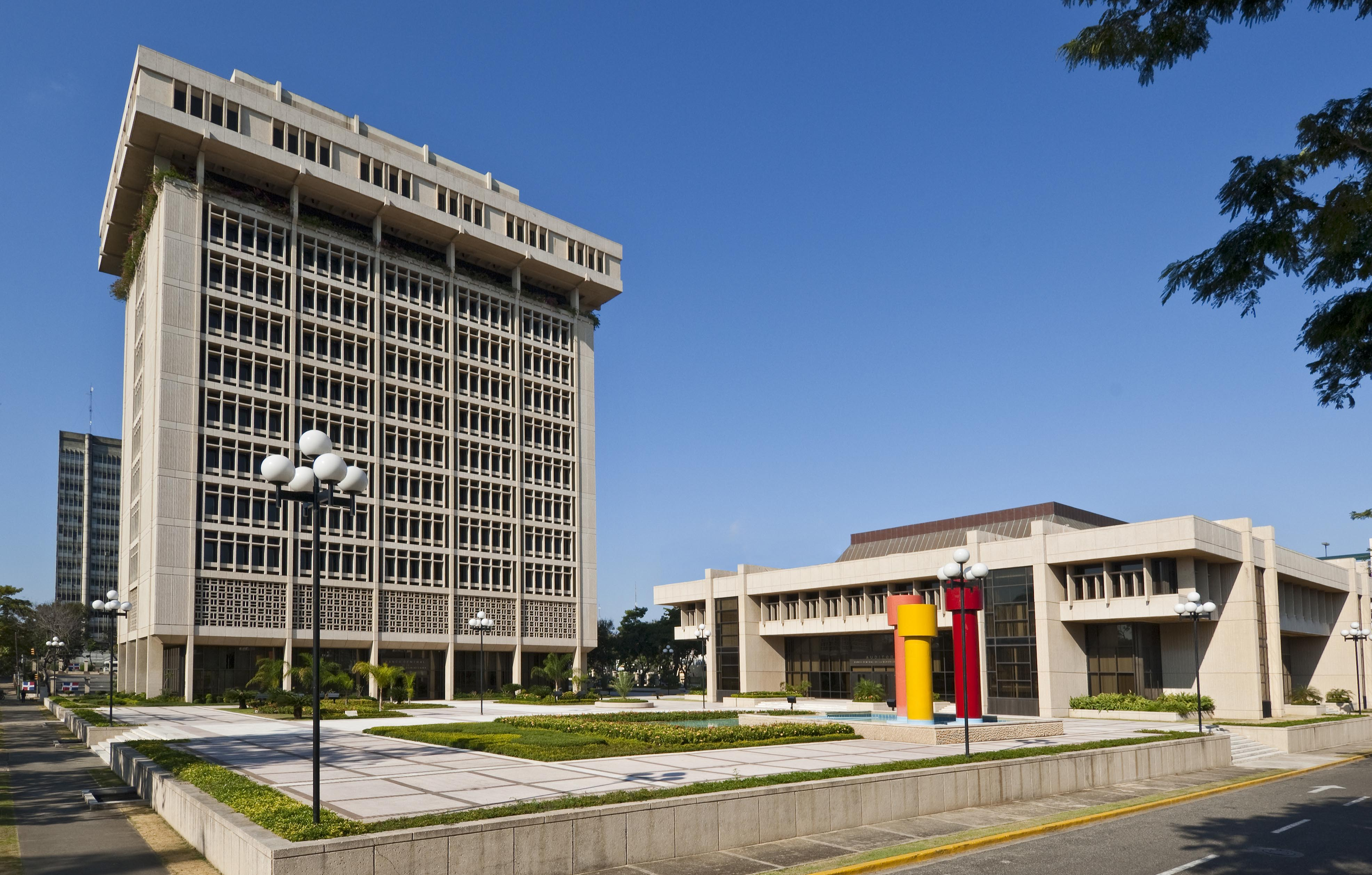 Tower and auditorium of the Central Bank of the Dominican Republic, in Santo Domingo